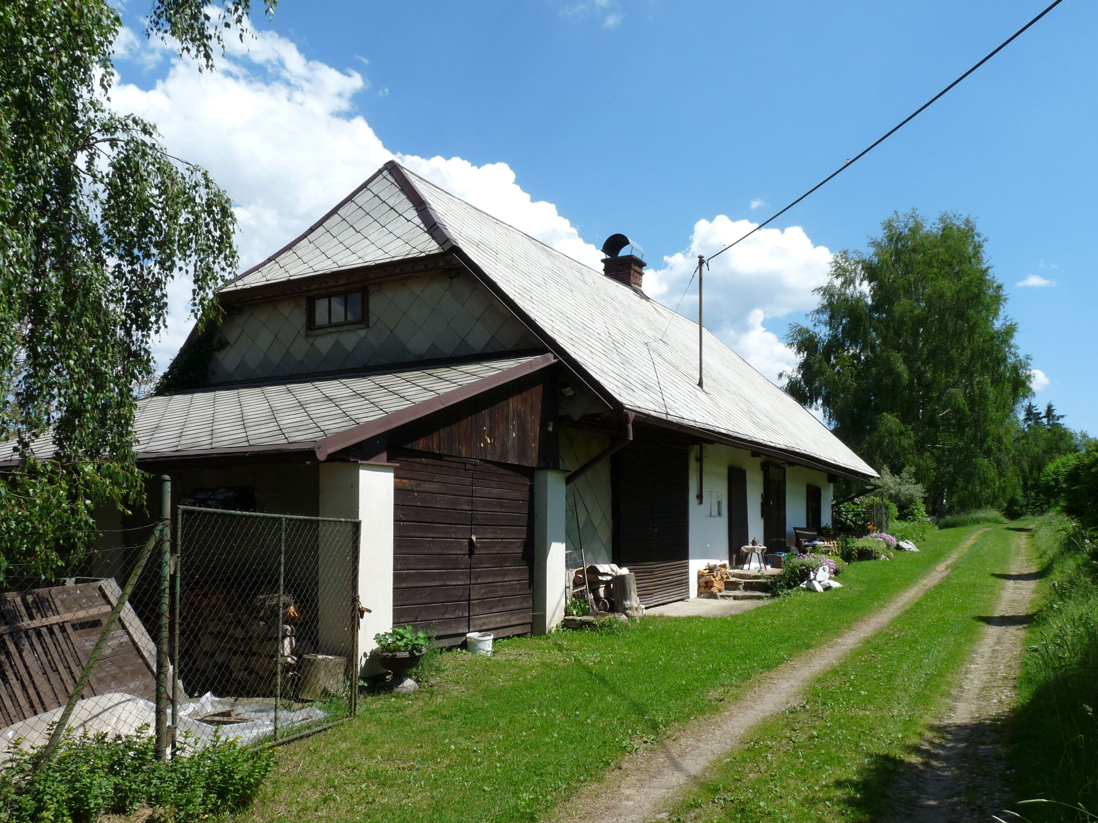 House No 12 in the village of Vatětice, part of the town of Hartmanice, Klatovy District, Plzeň Region, Czech Republic.